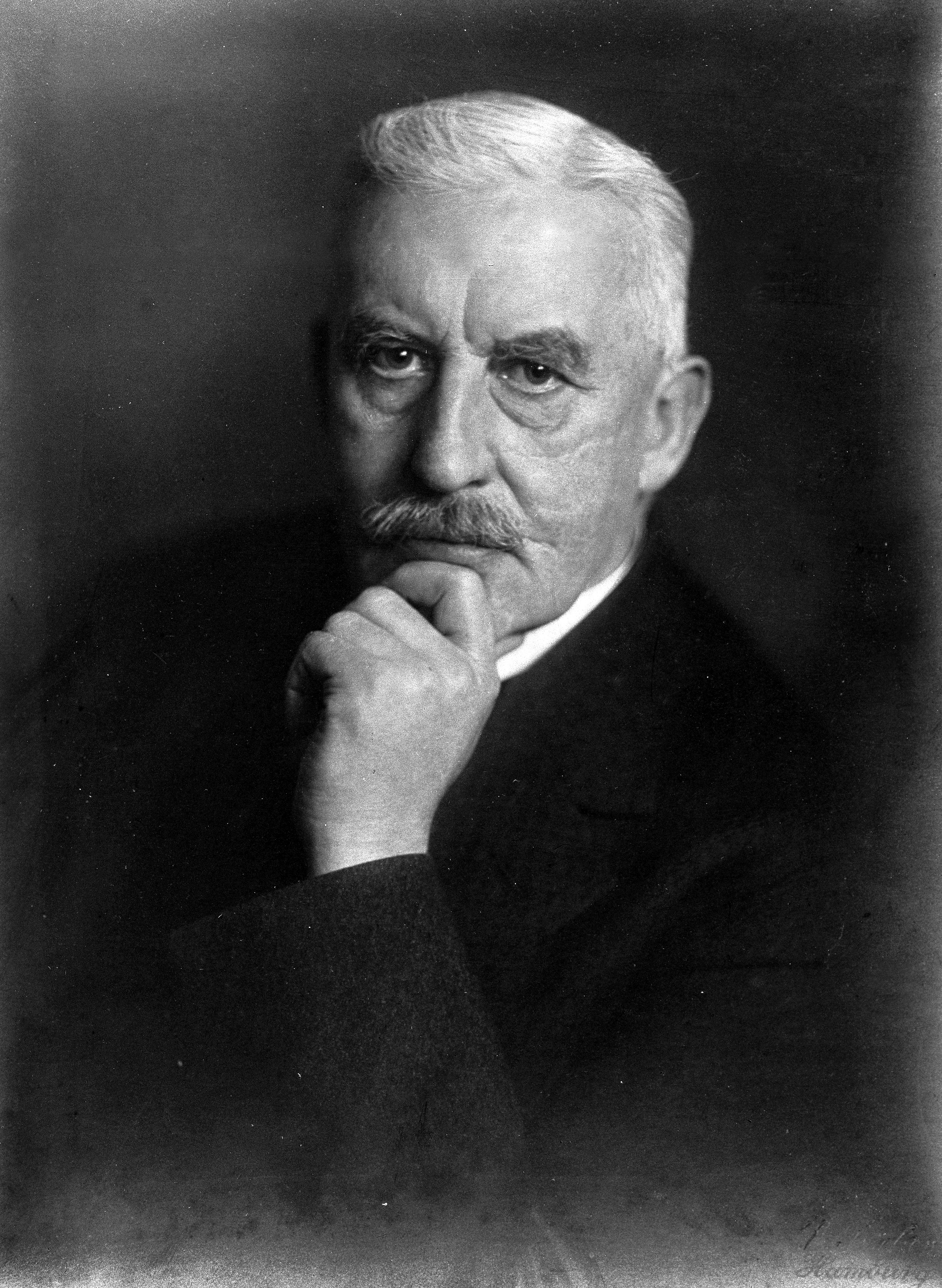 Portrait of Ludolph Brauer, from an original photograph taken in Hamburg by E. Bieber. Iconographic Collections Keywords: Bieber, E.; Brauer, Ludolph